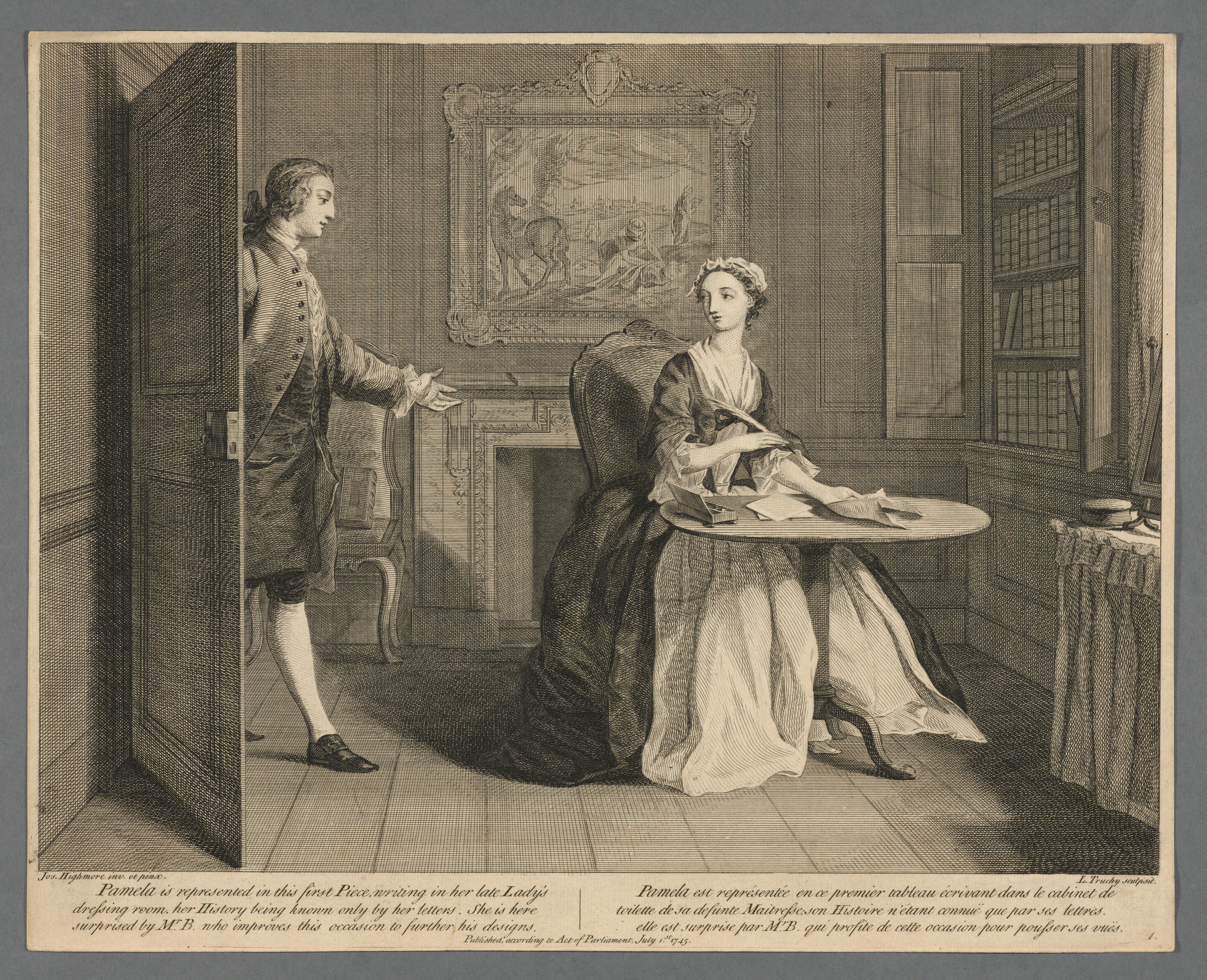 Plate 1 from a series of twelve engraved plates illustrating Pamela by Samuel Richardson. Etched by L. Truchy and A. Benoist after paintings by J. Highmore. Detailed captions in French and English. 37 x 30 cm. Printed in London, 1745. Typ 705.45.452, Houghton Library, Harvard University